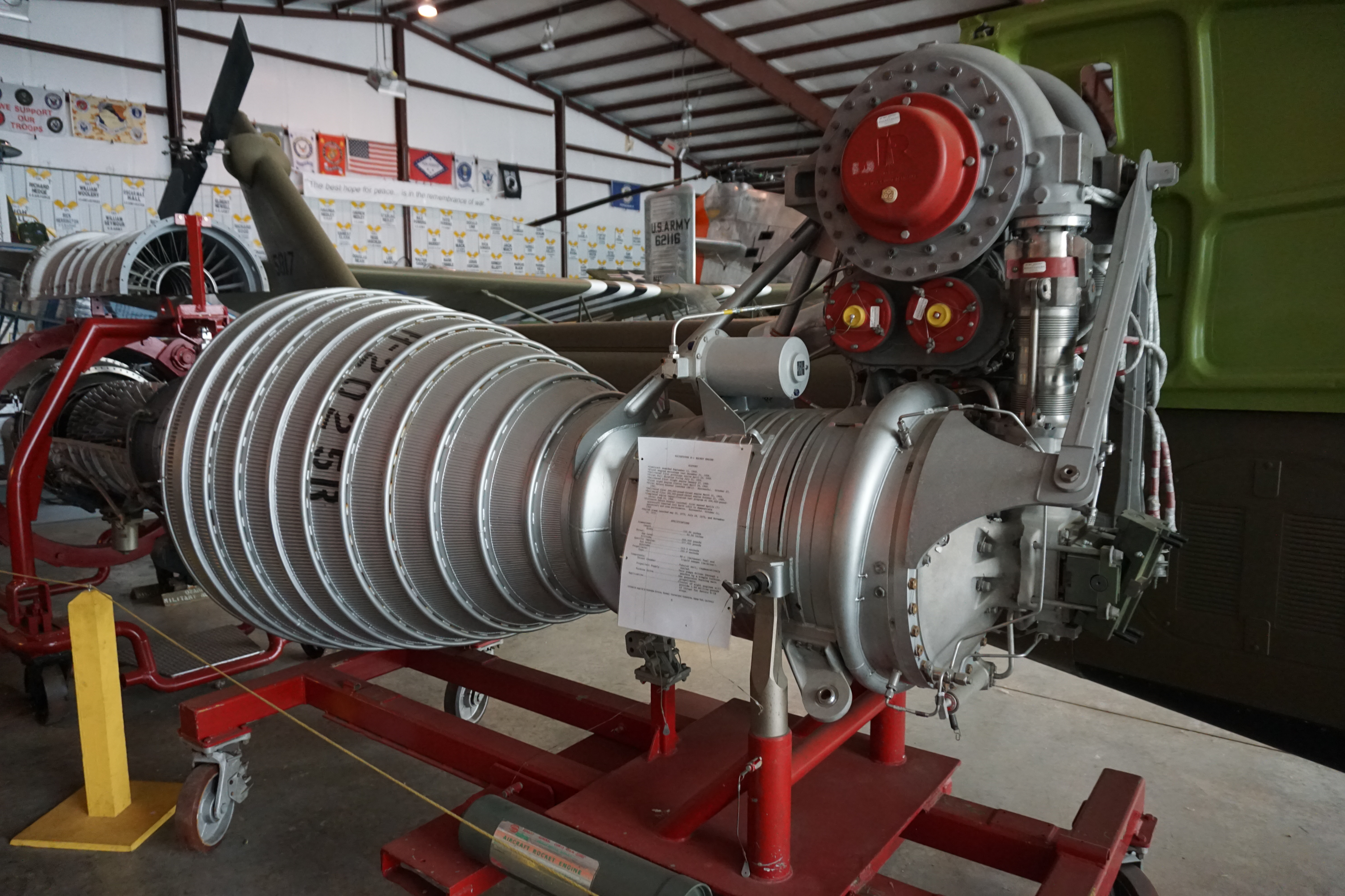 A Rocketdyne H-1 rocket engine at the Arkansas Air & Military Museum in Fayetteville, Arkansas (United States).